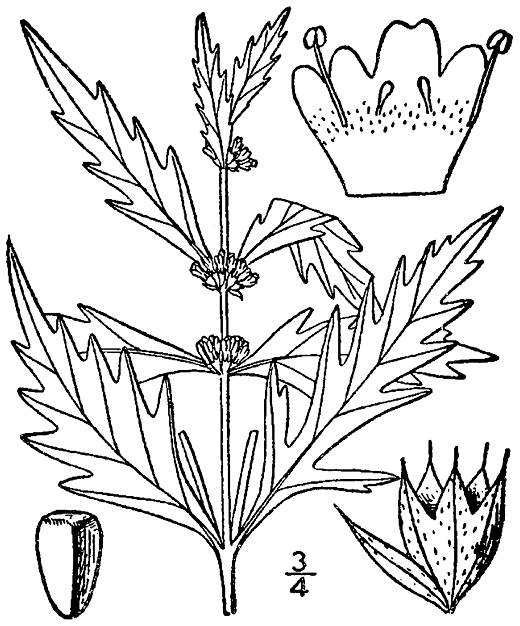 Lycopus americanus Muhl. ex W. Bartram - American water horehound